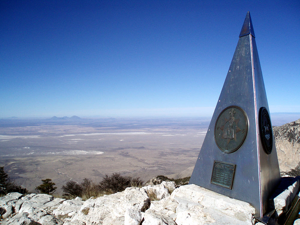 The view from the summit of Guadalupe Peak in Guadalupe Mountains National Park, Texas.